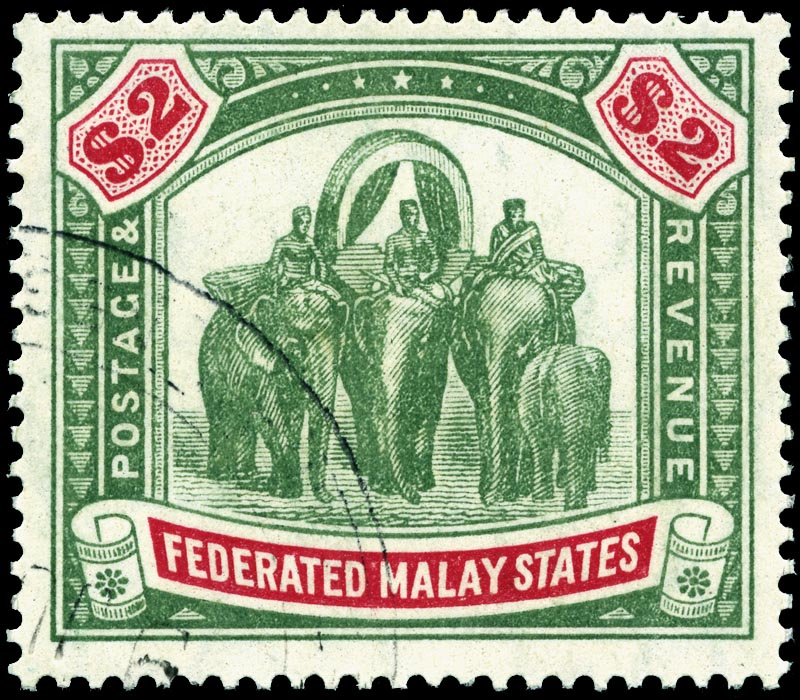 Malaya 2-dollar stamp of 1906